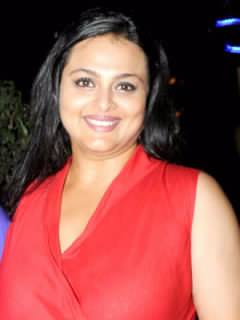 Shilpa Shirodkar at success bash of 'Ek Mutthi Aasmaan'